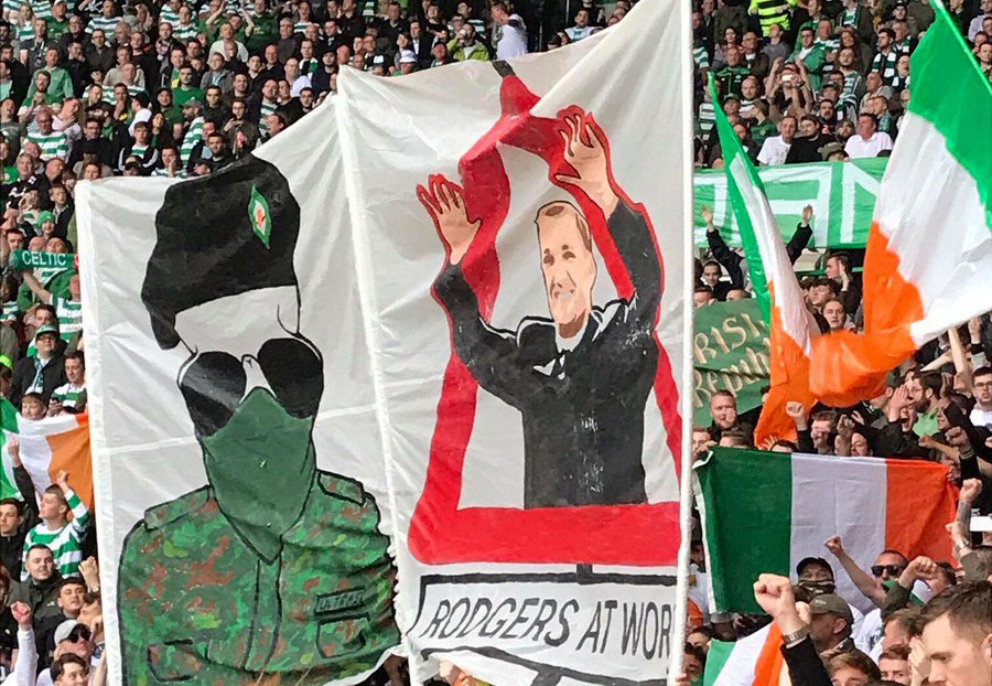 Celtic banners being shown by against Linfield that cost a fine from Uefa